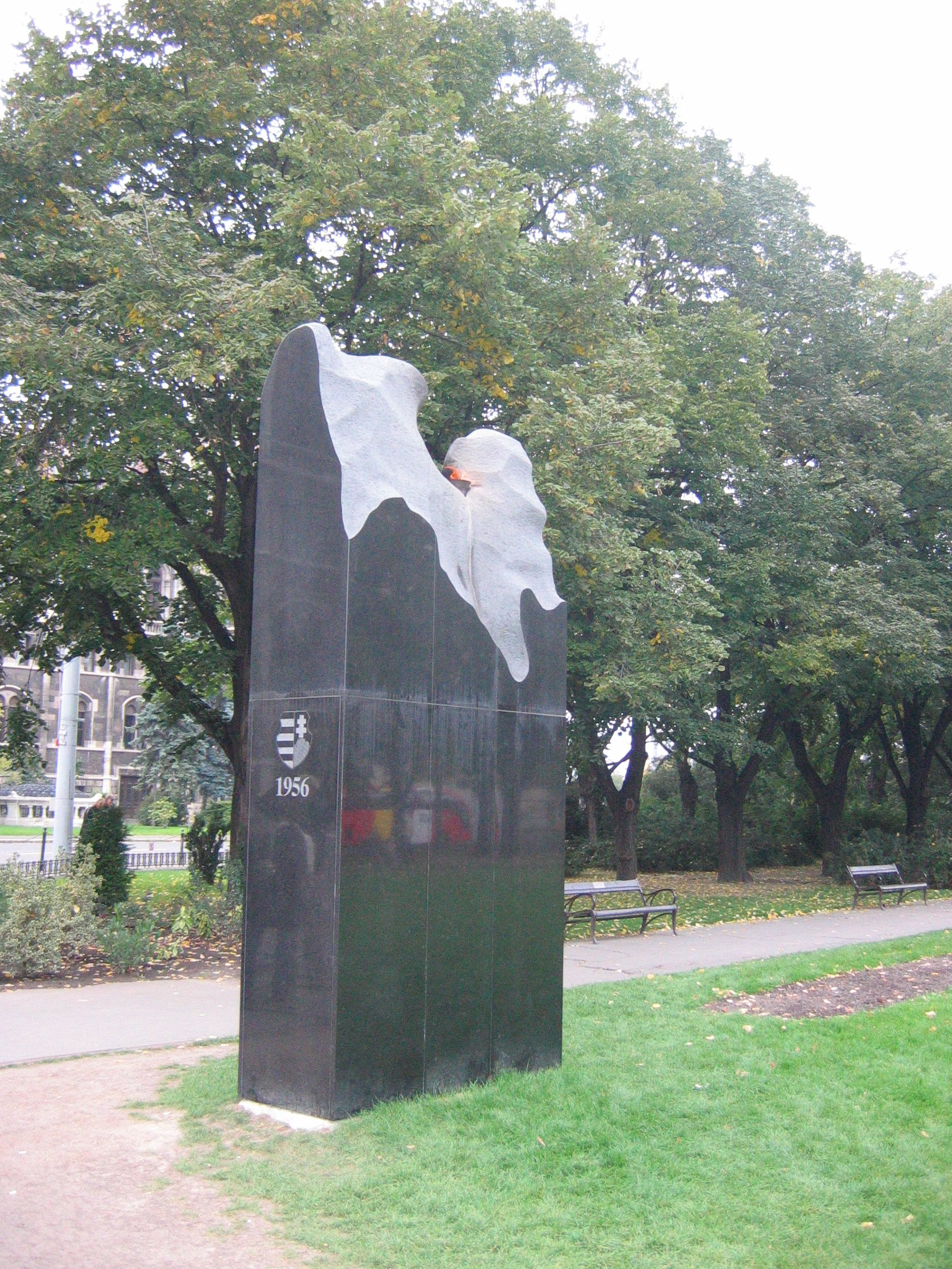 The monument about the events of the year 1956 in Budapest, near the Parliament.